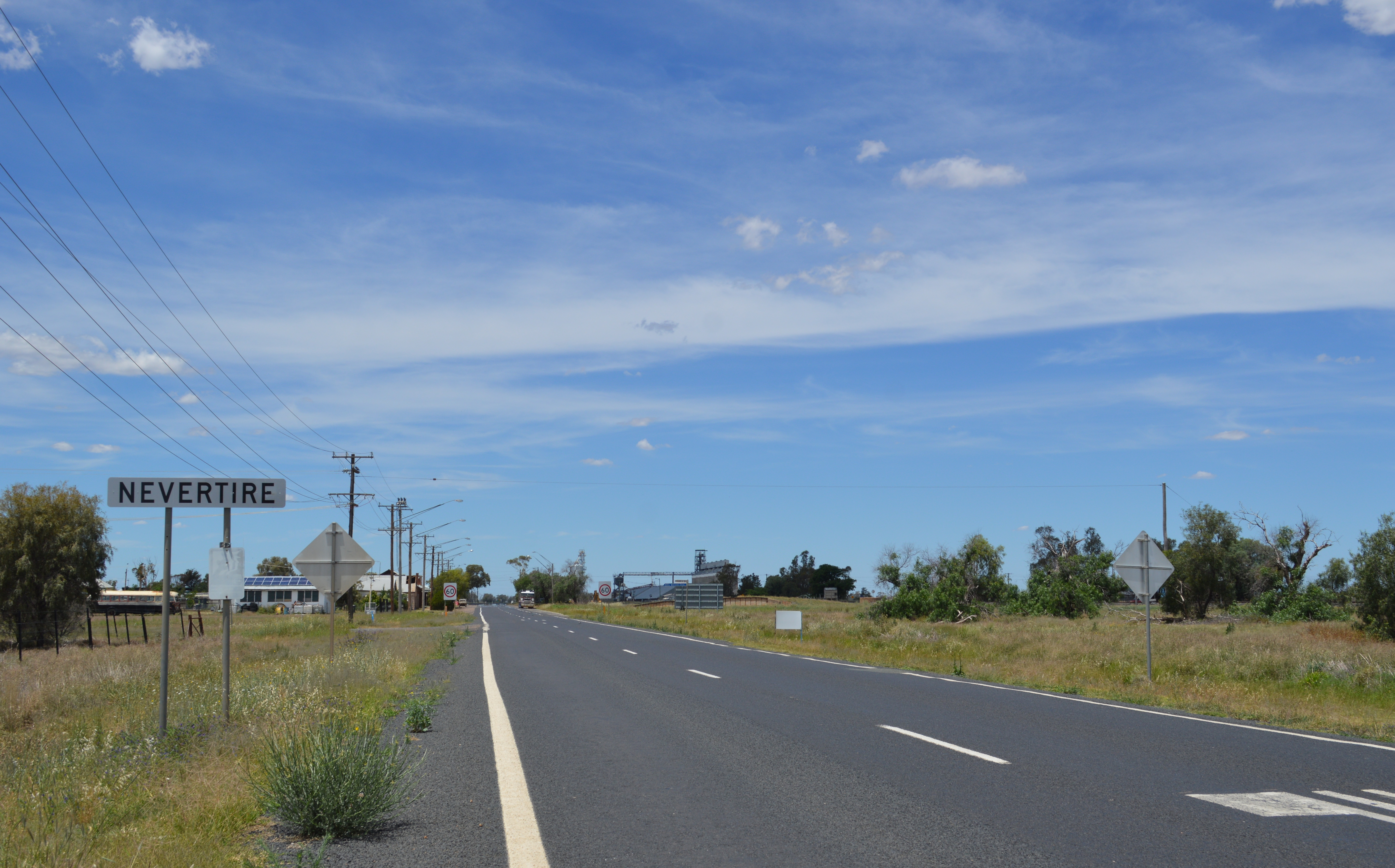 Town entry sign at Nevertire, New South Wales